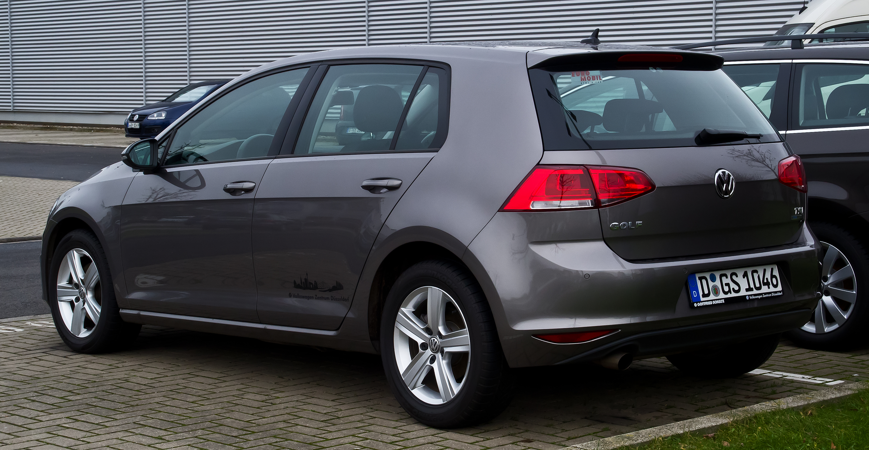 VW Golf 1.2 TSI BlueMotion Technology Comfortline (VII)